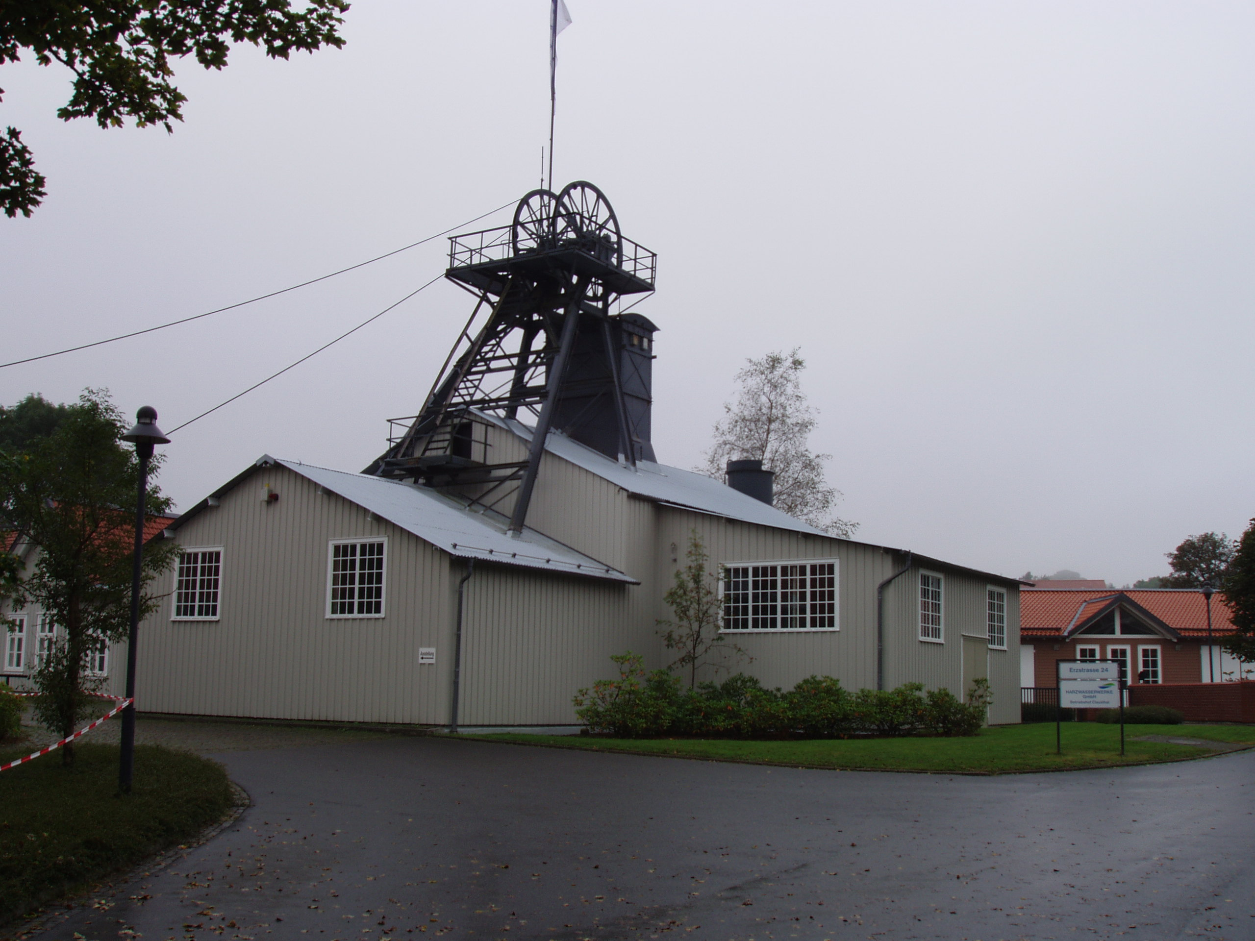 Mine buildings of the Kaiser-Wilhelm-Schacht in Clausthal (GER)